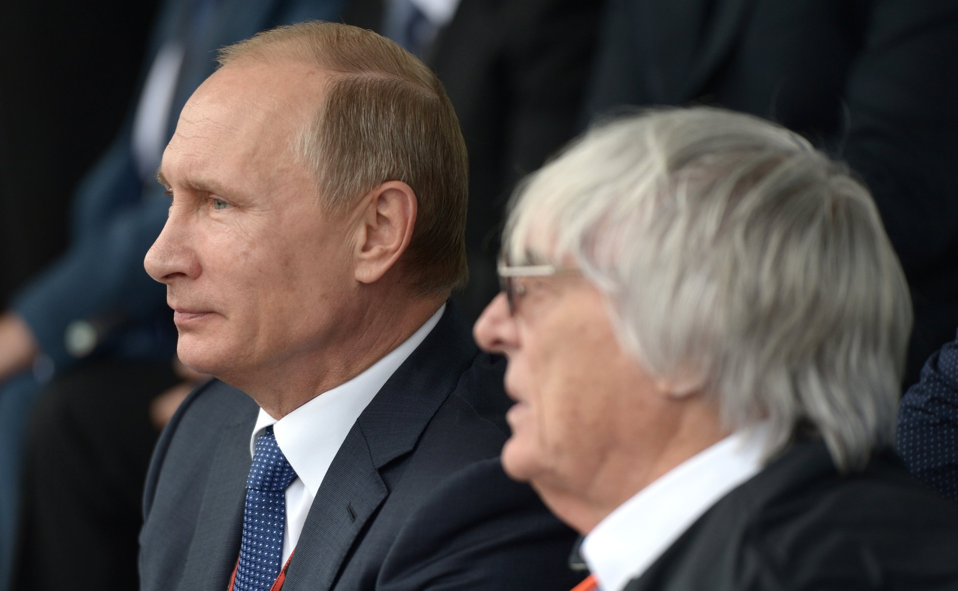 2015 Russian Grand Prix